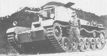 Front angle view of Imperial Japanese Army Type 1 medium tank Chi-He